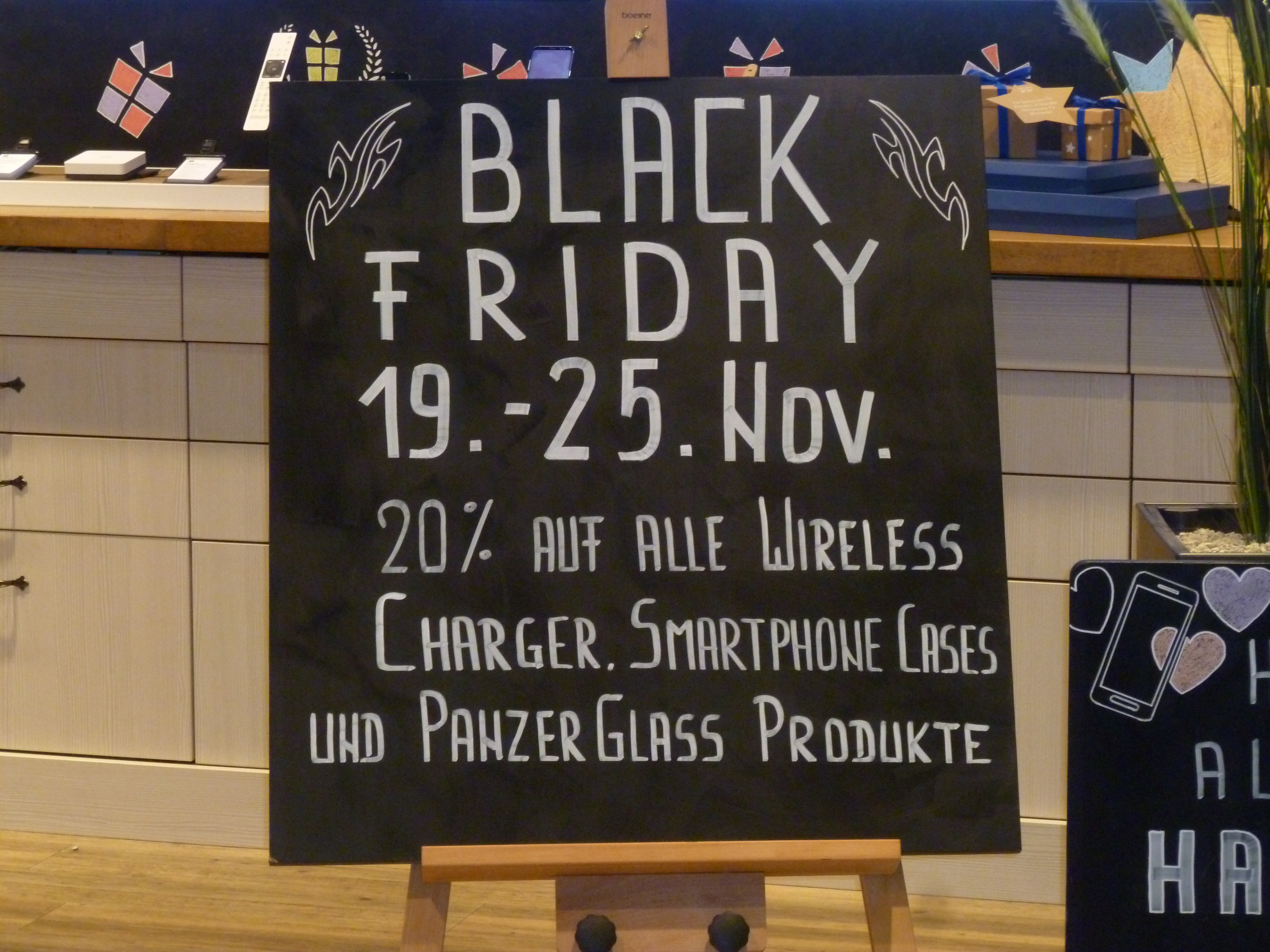 Advertising board for the extension of a "Black Friday" sale in the Swisscom Shop. The sign says in